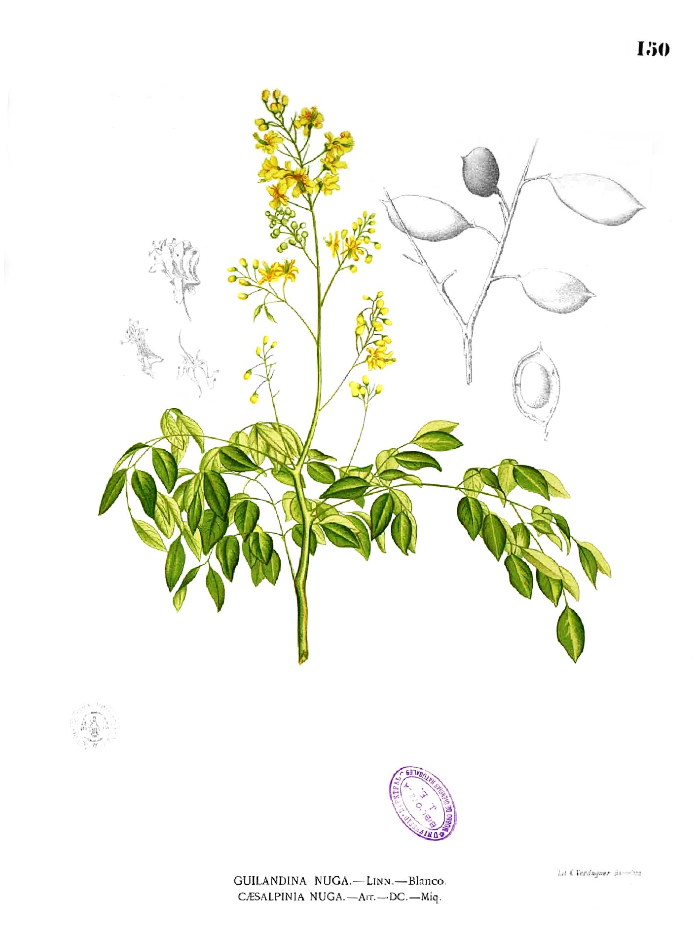 Plate from book